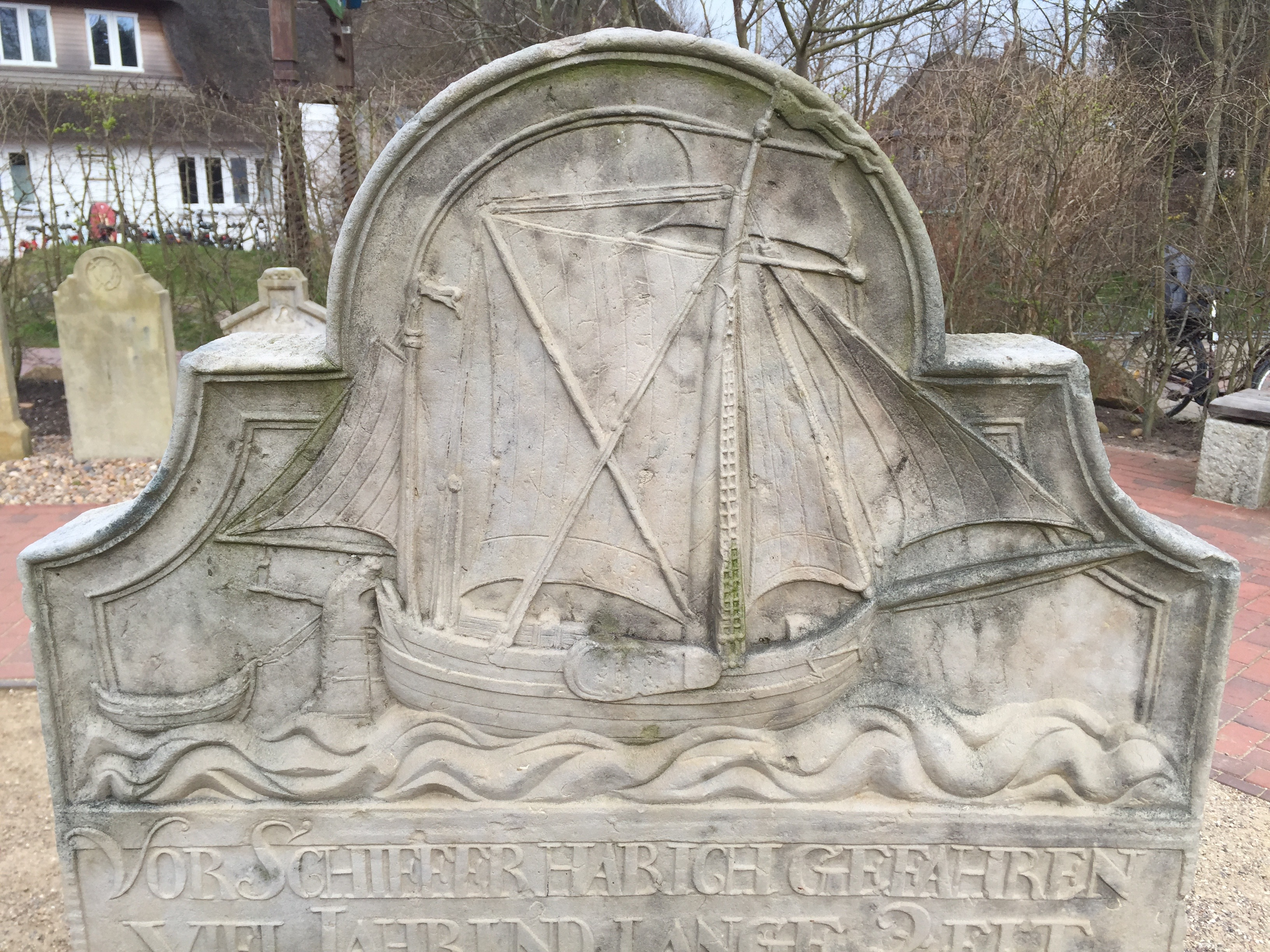 The making of this document was supported by the Community-Budget of Wikimedia Germany. Gravestones in Amrum